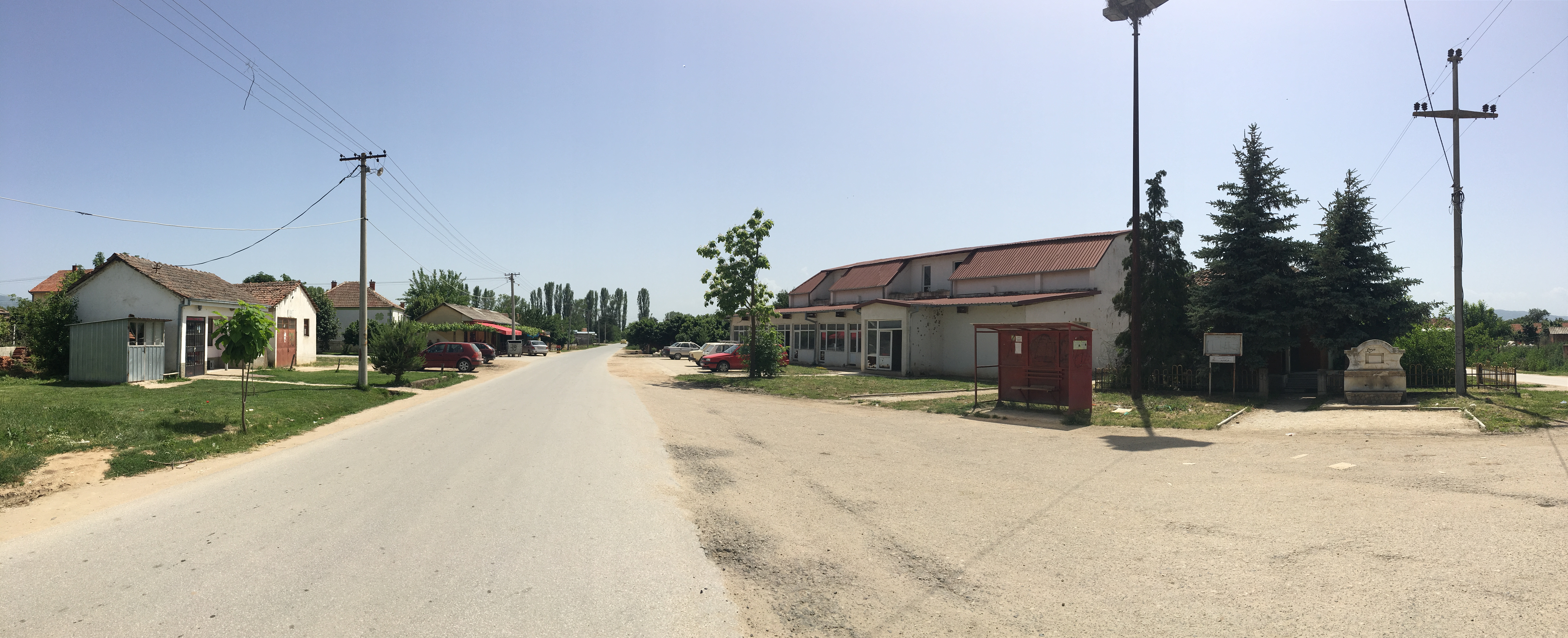 A panoramic view of the village of Dobruševo